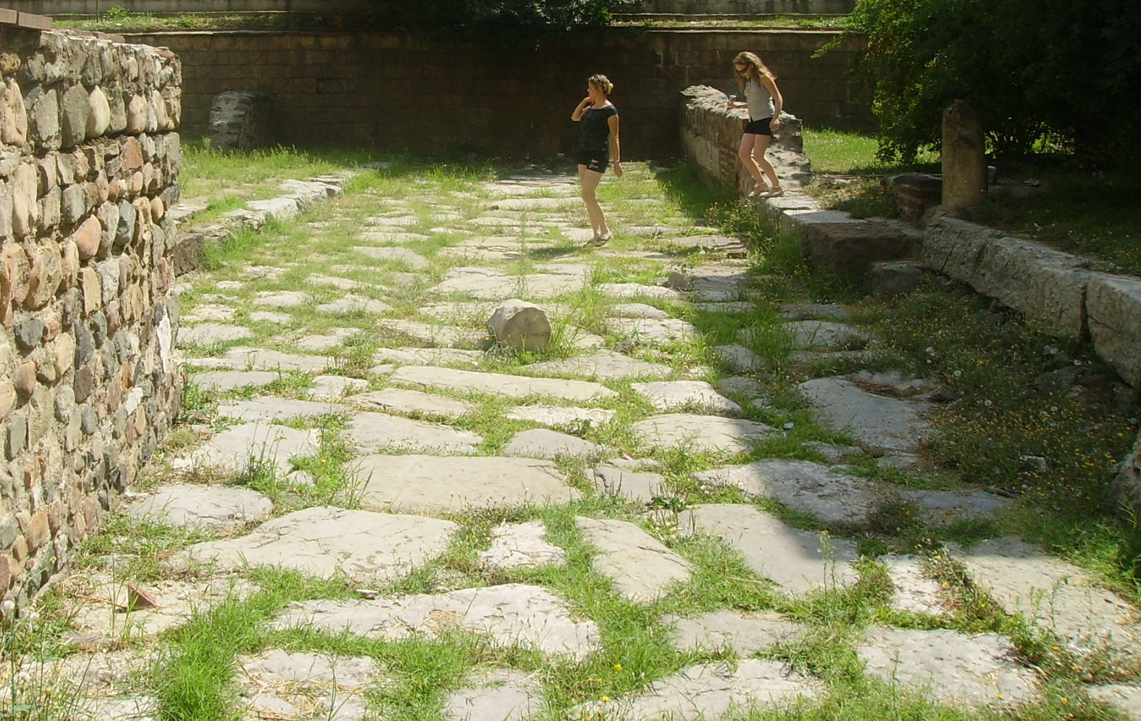 Sofia, 2000 years old anicent street_between St. Georgi rotonda church and the remains of the palace of roman imperator Costantin the Great